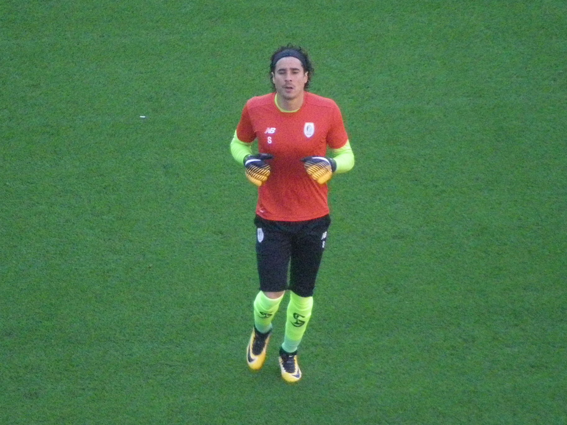 Guillermo Ochoa preparing for a league match between his club Standard de Liège and opponent team Sporting Charleroi on September 10, 2017.